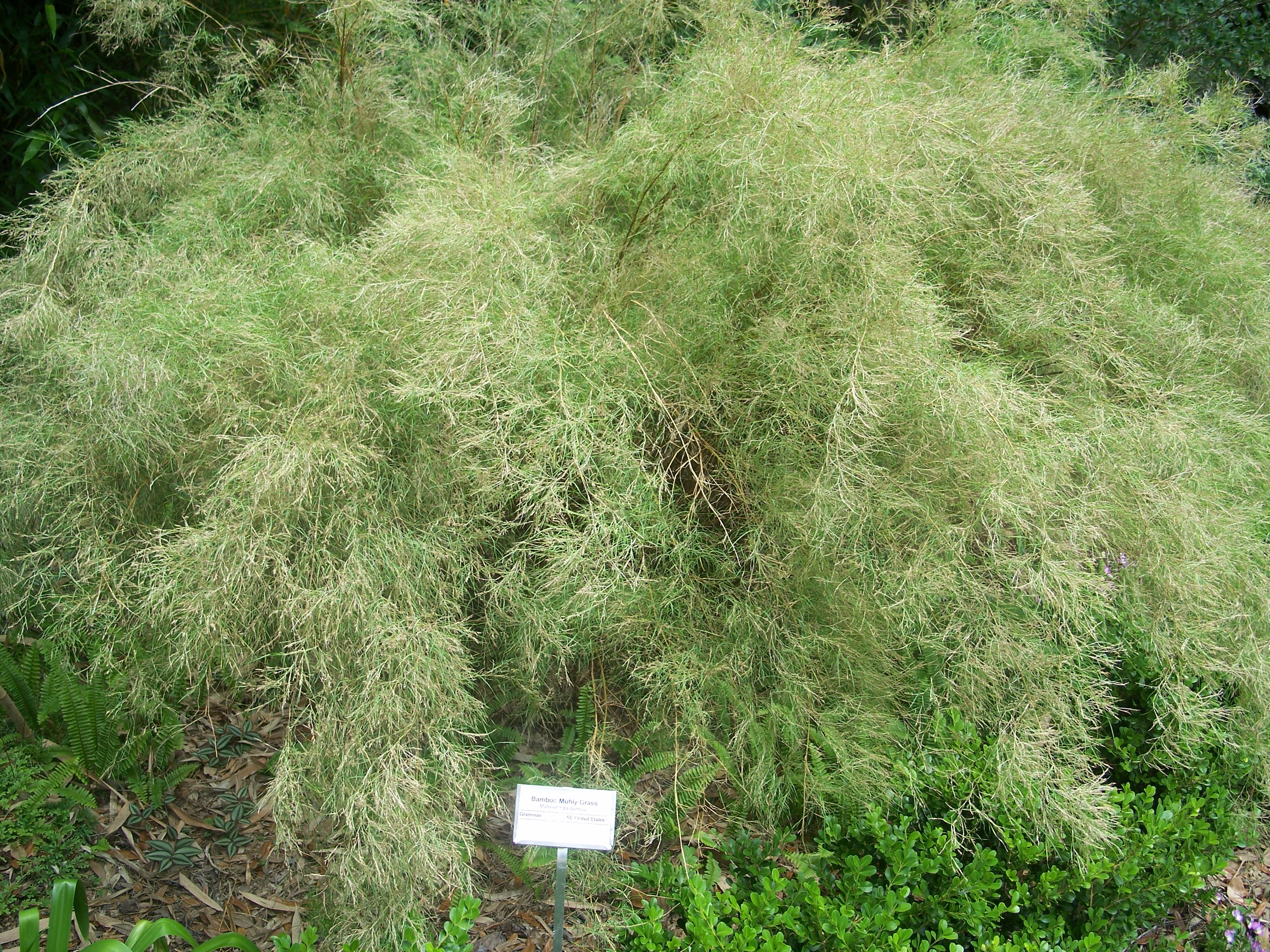 Gainesville, Florida: Kanapaha Botanical Gardens: Bamboo muhly grass (Muhlenbergia dumosa)